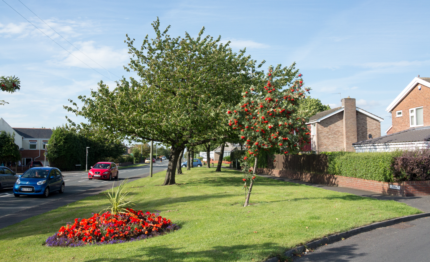 Grassed strip with flower bed and trees in Ouston, County Durham